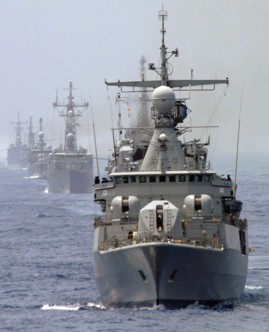 Atlantic Ocean (Oct. 26, 2005) - The Argentinean destroyer ARA Almirante Brown (D 10) leads in a formation during a “leapfrog” exercise off the coast of Brazil. Naval forces from Argentina, Brazil, Spain, Uruguay and the United States are participating in UNITAS 47-06 Atlantic phase. This is a U.S. Southern Command-sponsored exercise that enhances friendly, mutual cooperation and understanding between participating navies by enhancing interoperability in naval operations among the nations of the Western Hemisphere. U.S. Navy photo by Photographer’s Mate 2nd Class Michael Sandberg (RELEASED)